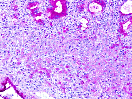 Histopathology of gastric adenocarcinoma showing a signet ring cell variant. Alcian blue-periodic acid-Schiff stain.